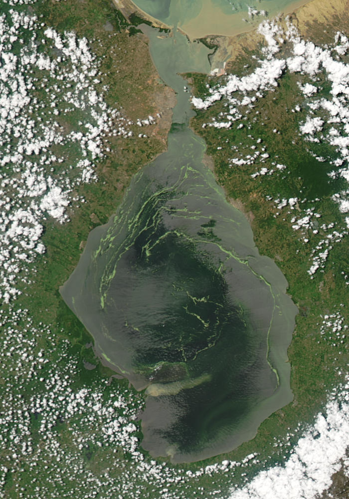 Satellite image of Lake Maracaibo, Venezuela. The green swirls are duckweed which is infesting the lake.